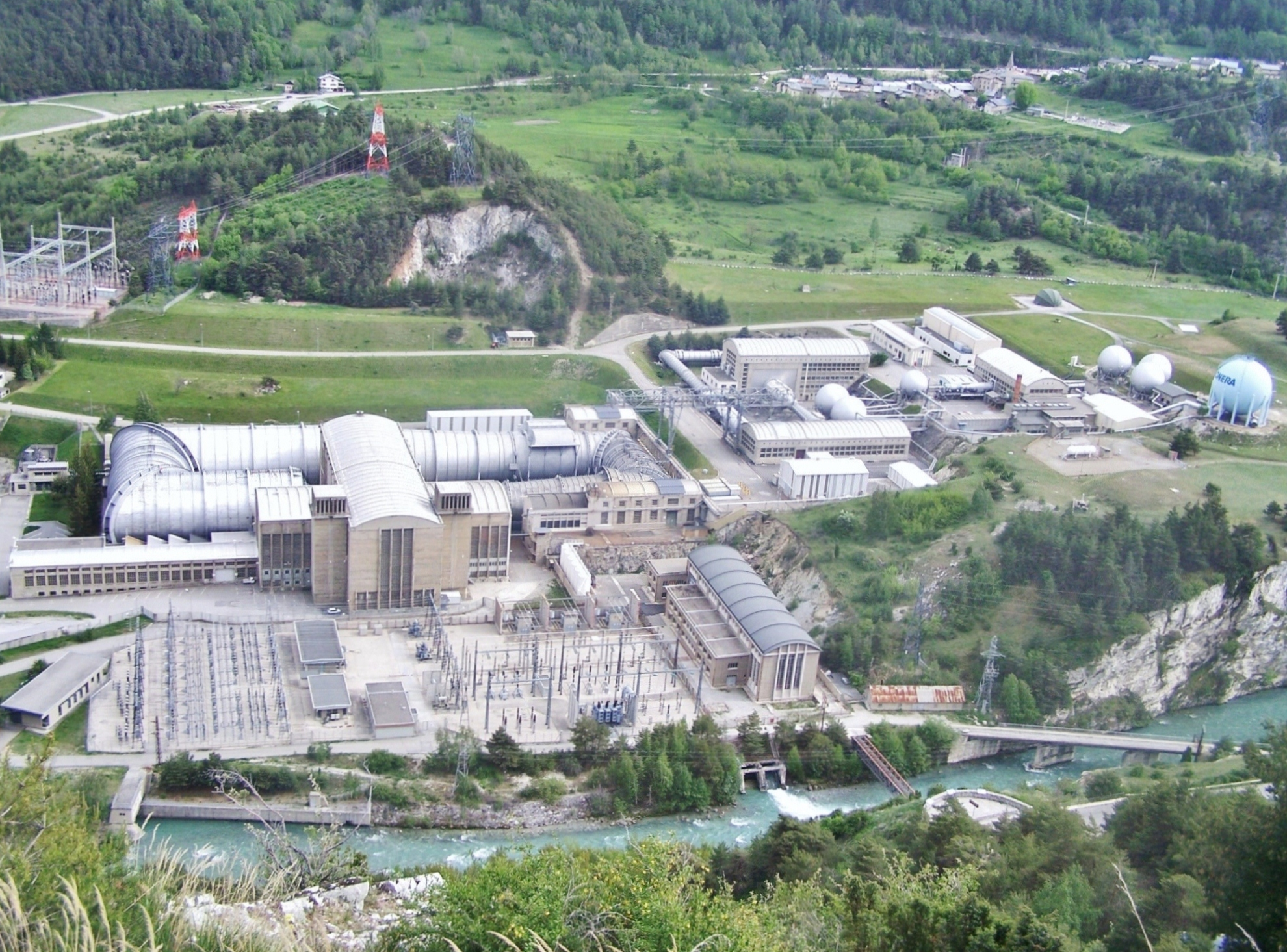 The ONERA wind-tunnel factory, in the French department of Savoie, France (French Alps).